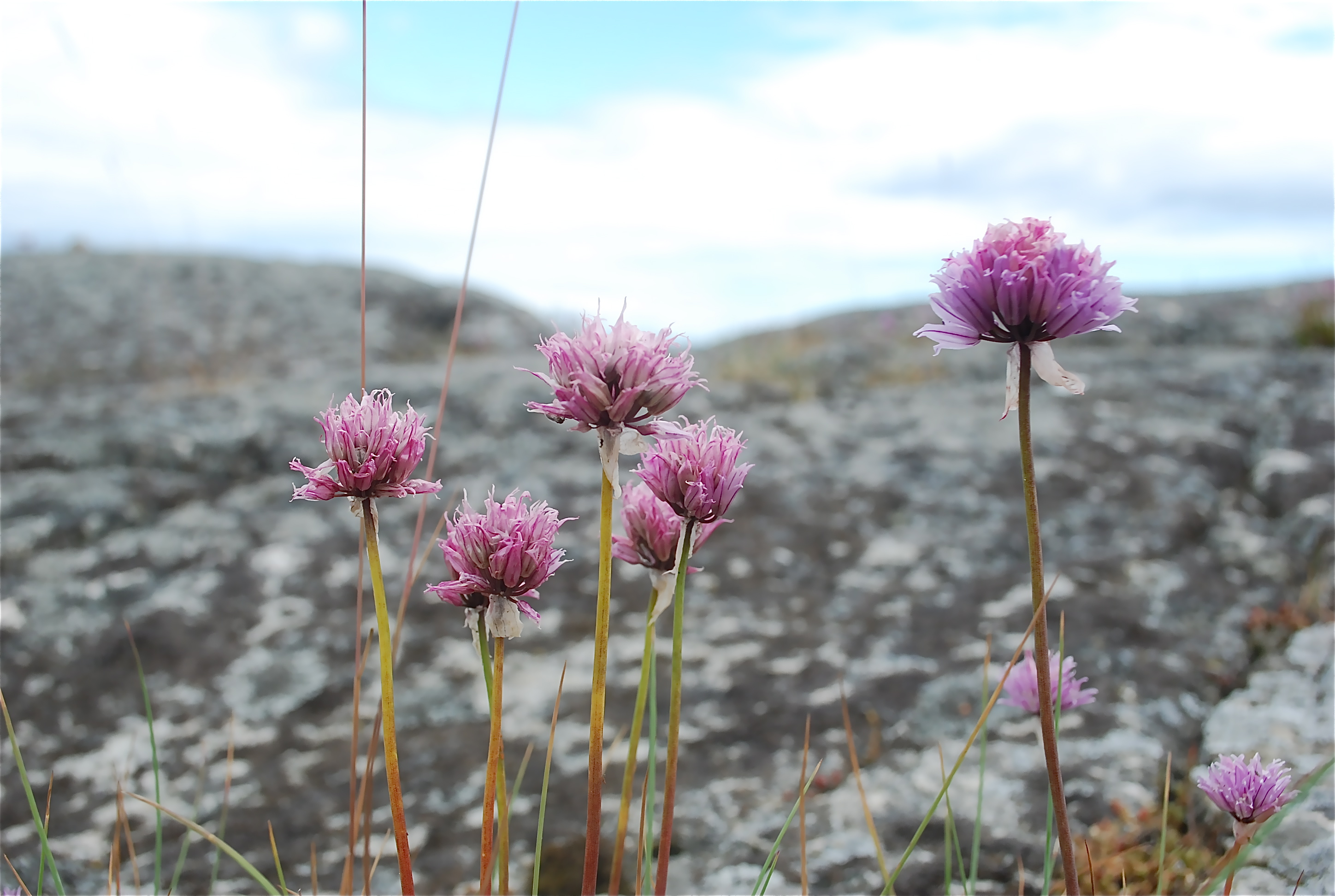 Allium schoenoprasum. Photo from Utö, in Stockholm Stockholm archipelago.